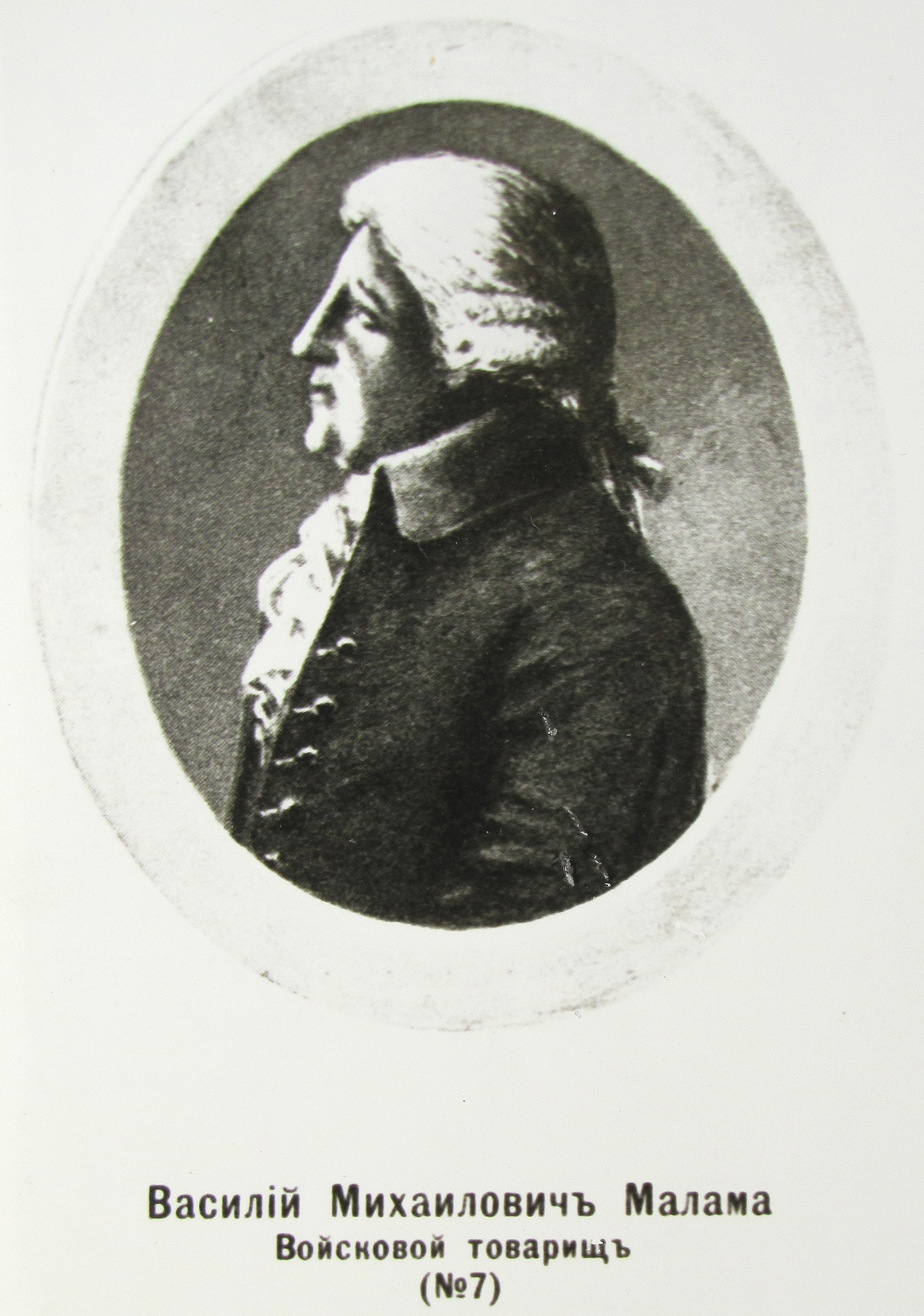 Vasilij Mikhailovich Malama